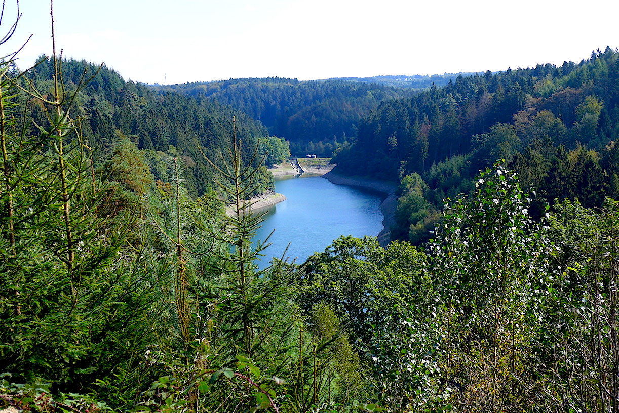 "Blade track" - the tourist marked route around the German city of Solingen (Northern Rhine-Westphalia). 4th stage: around a reservoir of Sengbachtalsperre. 9,0 km.